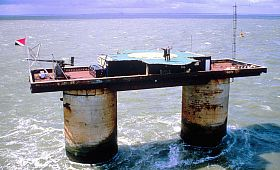 Picture of Sealand With permission of "Bureau of Internal Affairs Principality of Sealand" Because of the irreplacable nature of this photo, and the permission afforded by the "government" we ask that further consideration before deleting this image. My reading is they assigned GFDL (at least, or PD), and they would have assigned copyright to Wikipedia foundation if they had been asked again. Plus the other images on the emails - please tag as gfdl. Full clarification of which they meant would be better. Justinc 00:05, 30 September 2005 (UTC) They actually have assigned it to the public domain. I emailed them and that's what they said. See the emails subpage. - Ta bu shi da yu 14:13, 3 January 2006 (UTC)Bân-lâm-gú: Se-lân Kong-kok (Sealand). 西蘭公國 (Sealand)。